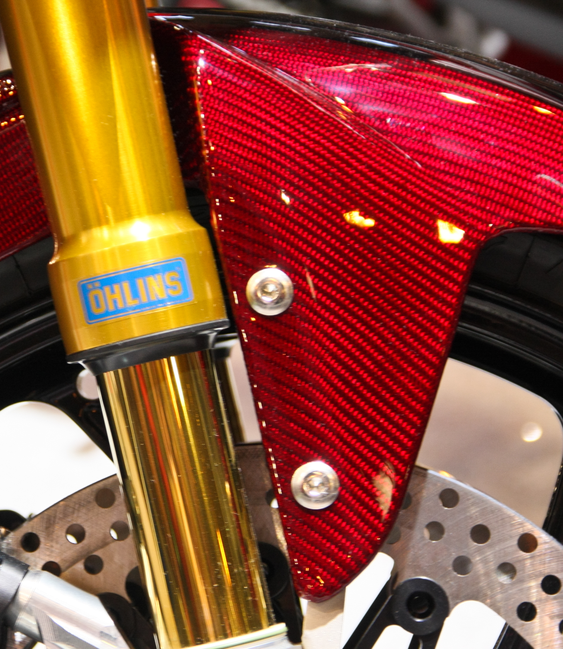 Oh those Ohlins!